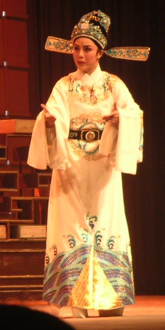 The clothes of Shaoxing opera. The actress is Fan Xiaoping (范晓萍).